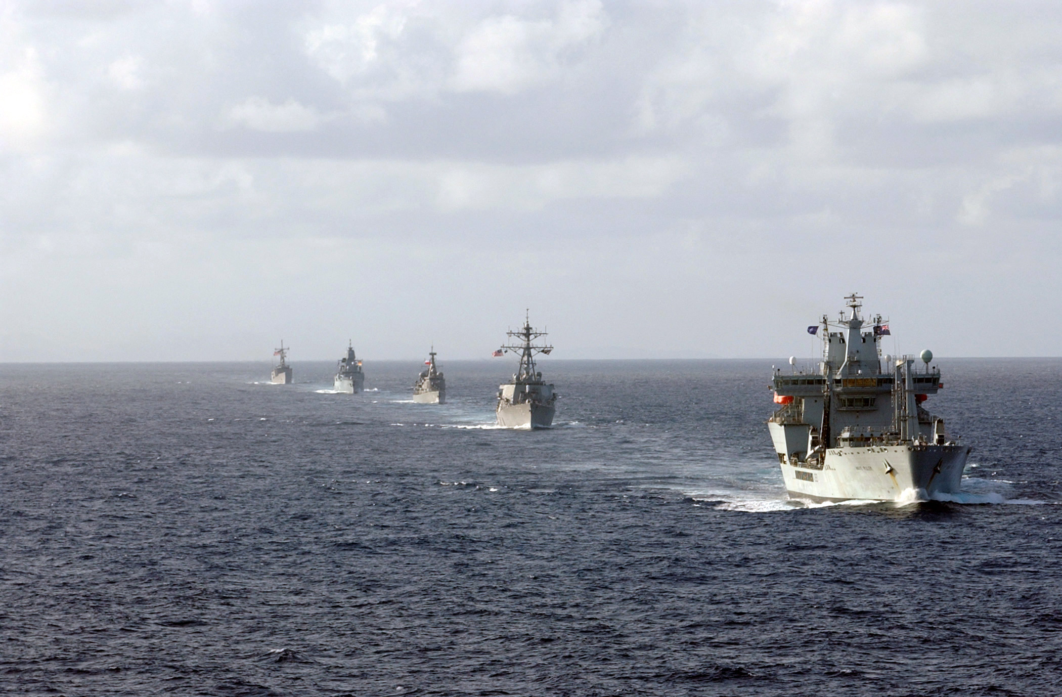 CARIBBEAN SEA (April 9, 2007); From right to left, RFA Wave Ruler (A 390), USS Mahan (DDG-72), CS Almirante Latorre (FFG 14), Sachsen (F 219), and USS Samuel B. Roberts (FFG 58) navigate together in formation during an exercise. Samuel B. Roberts and Almirante Latorre were operating together as part of Partnership of Americas (POA) 2007. POA focuses on enhancing relationships with partner nations through a variety of exercises and events at sea and ashore throughout South America and the Caribbean.